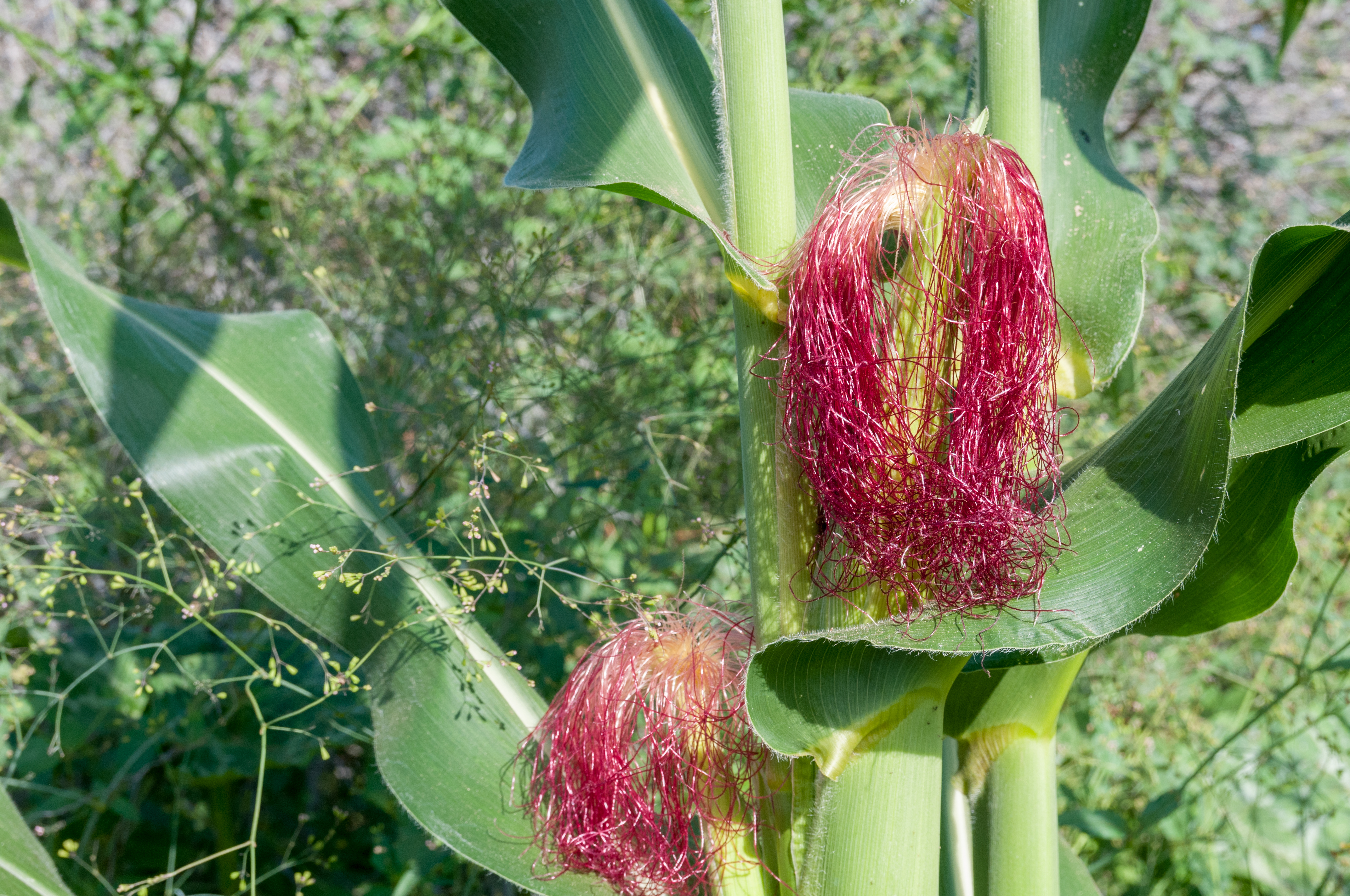 Zea mays (Corn blooming)